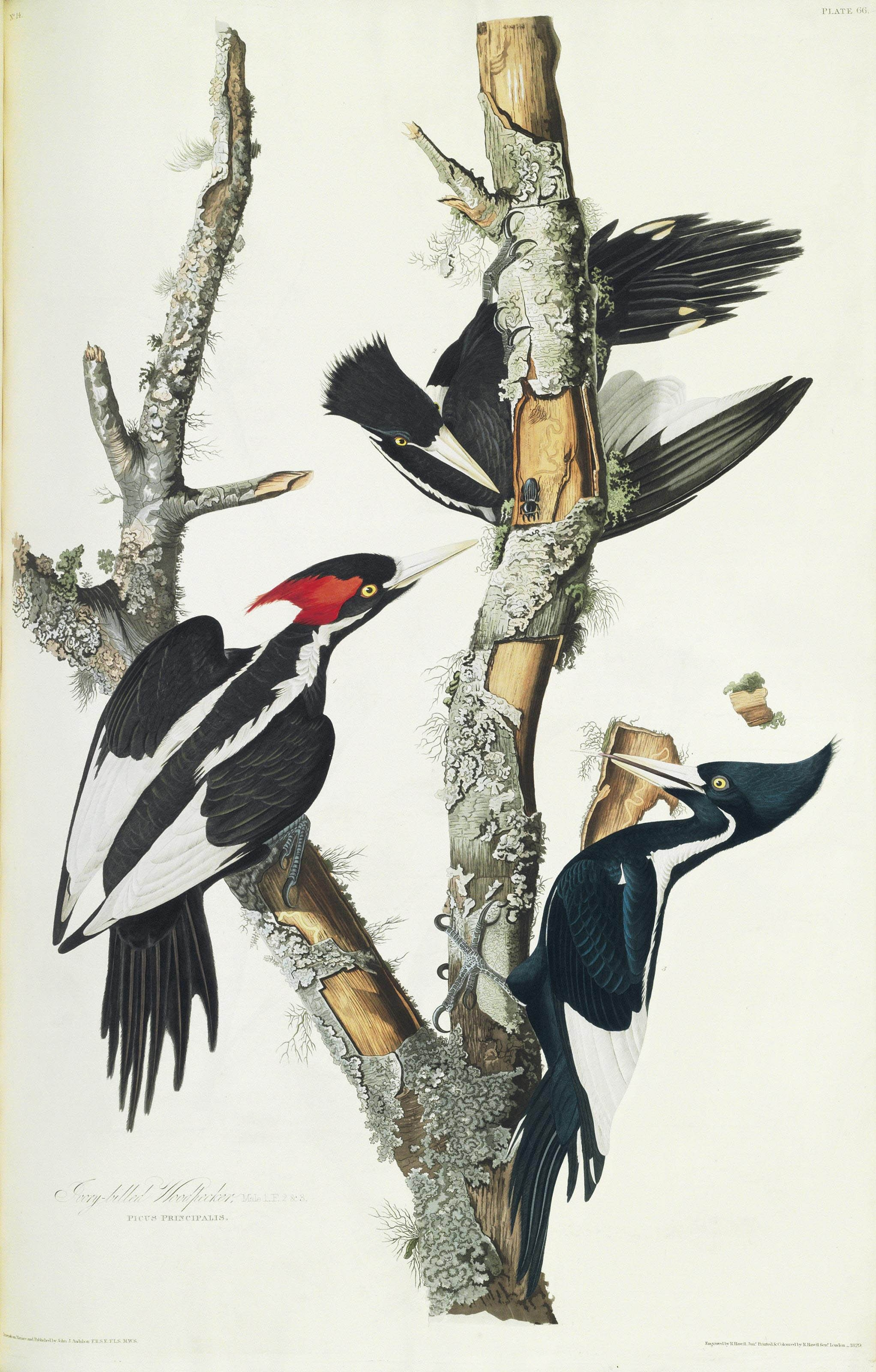 Plate 66 of Birds of America by John James Audubon depicting Ivory-billed Woodpecker.